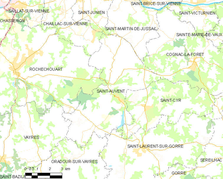 Map of French municipality Saint-Auvent